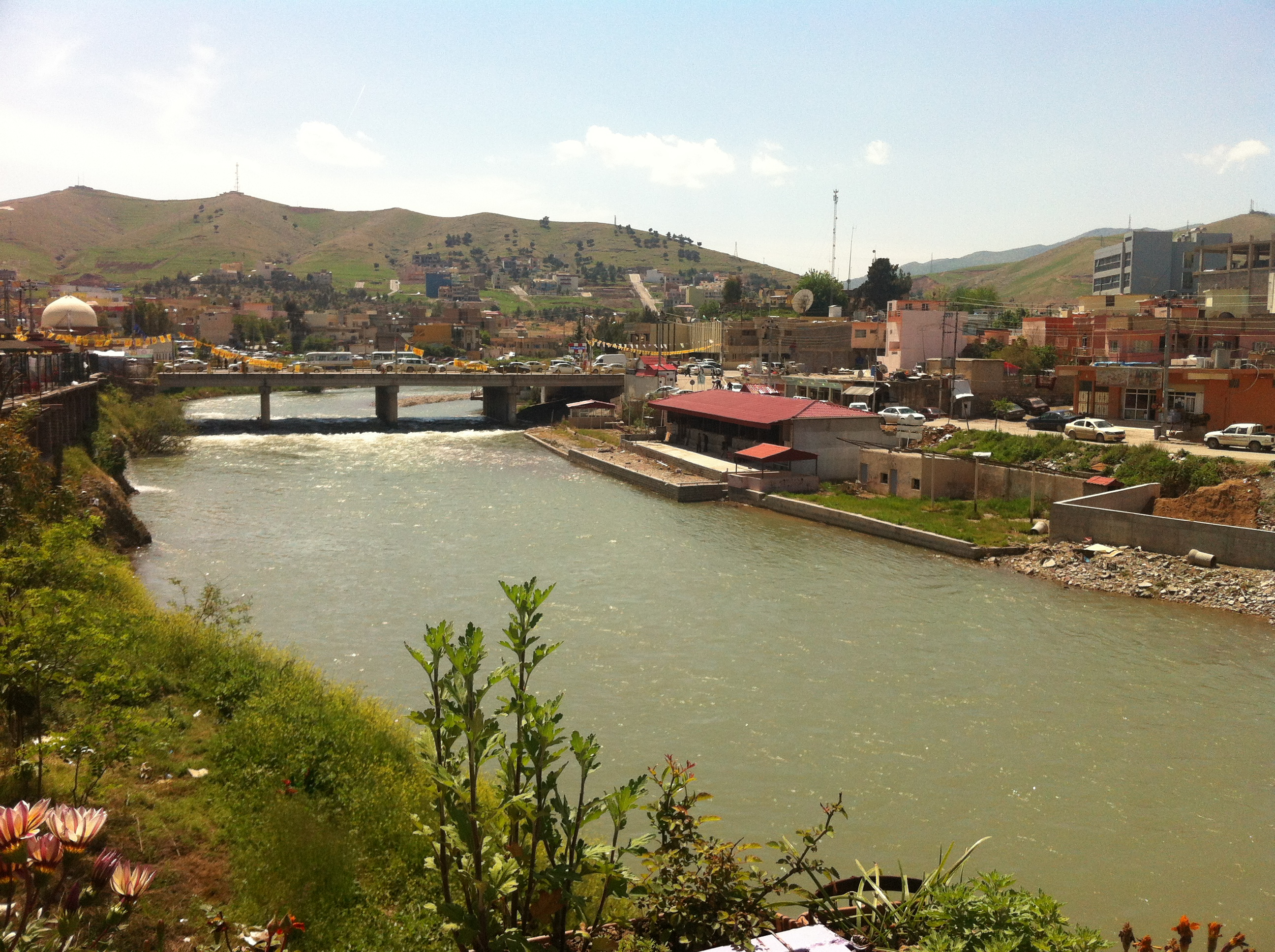 View of the city of Zakho/Zaxo in Iraqi Kurdistan from the Delal Bridge. On the left side you can see the Khabur/Xabur River.